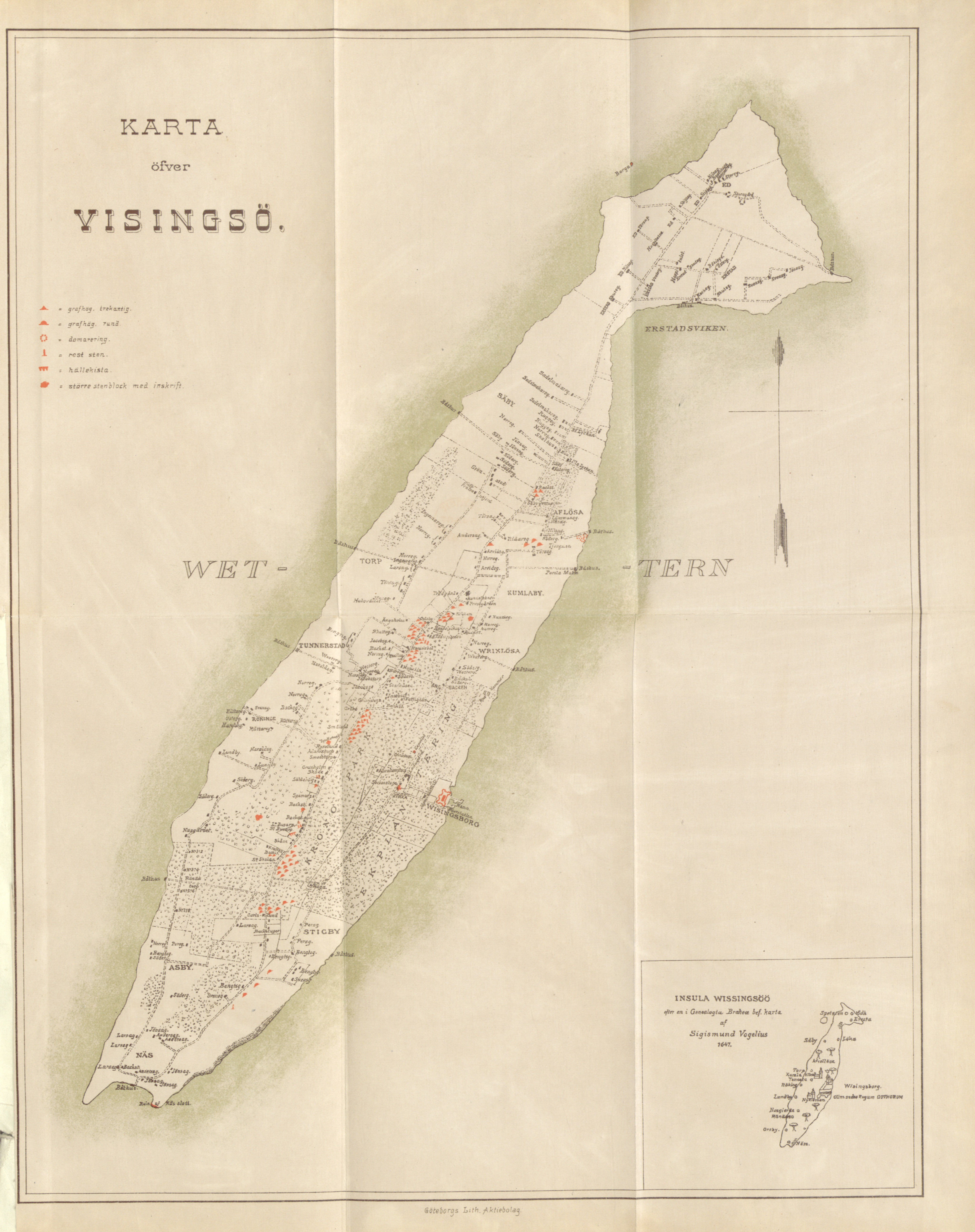 View this map on the BL Georeferencer service. Image taken from: Title: "Visingsö, jemte anteckningar om Visingsborgs grefskap. [With maps and illustrations.]" Author: BERG, Georg Wilhelm. Shelfmark: "British Library HMNTS 10280.g.5." Page: 337 Place of Publishing: Göteborg Date of Publishing: 1885 Issuance: monographic Identifier: 000281980 Explore: Find this item in the British Library catalogue, 'Explore'. Download the PDF for this book (volume: 0) Image found on book scan 337 (NB not necessarily a page number) Download the OCR-derived text for this volume: (plain text) or (json) Click here to see all the illustrations in this book and click here to browse other illustrations published in books in the same year. Order a higher quality version from here.